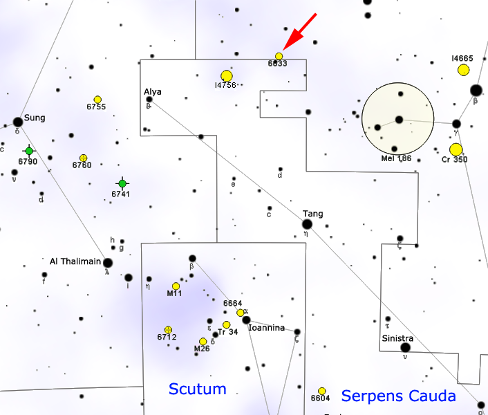 Map of NGC 6633